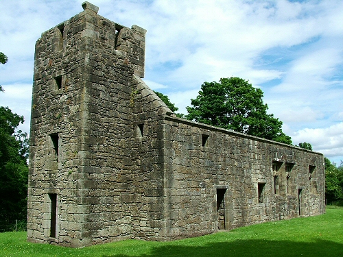 Photograph of Castle Semple Collegiate Church, on the southern shore of Castle Semple Loch by David Kelly